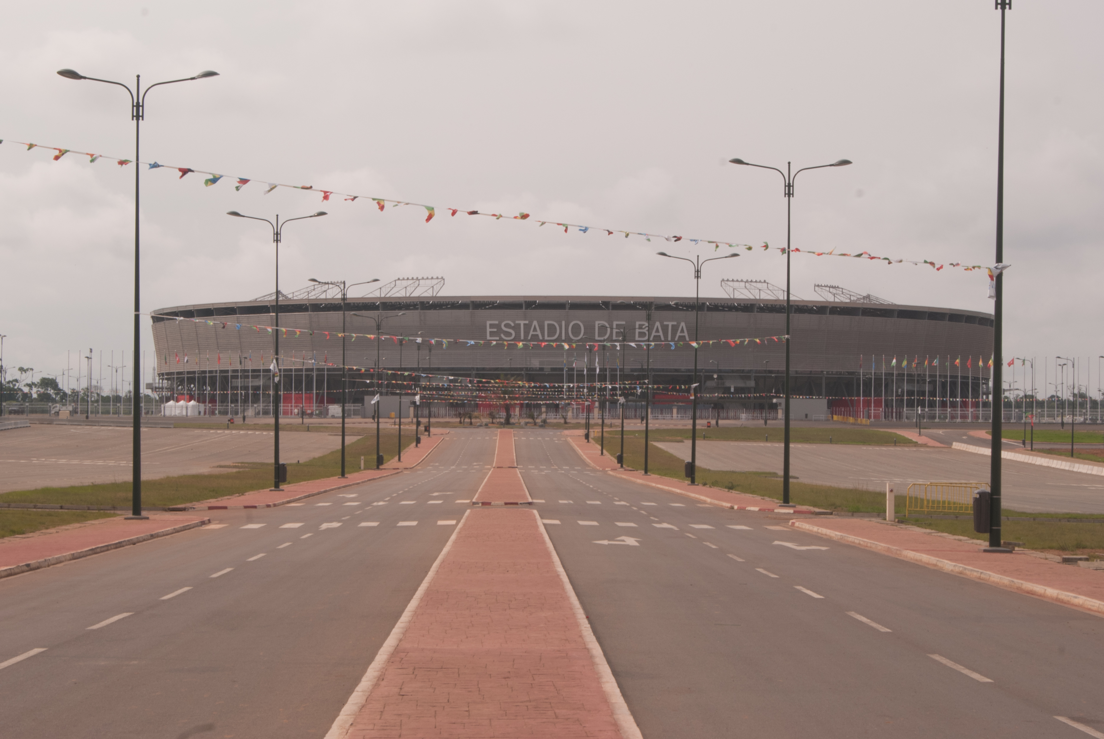 New Bata Stadium, refurbished due to Africa Cup of Nations 2012